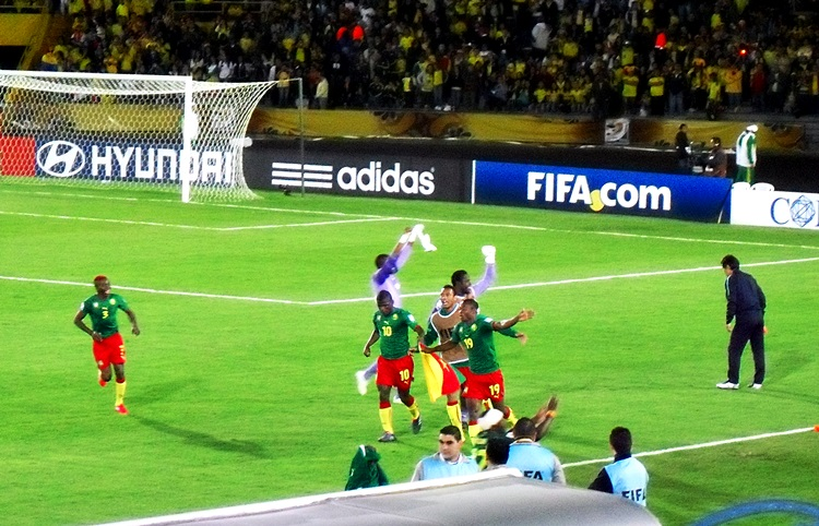 FIFA U20